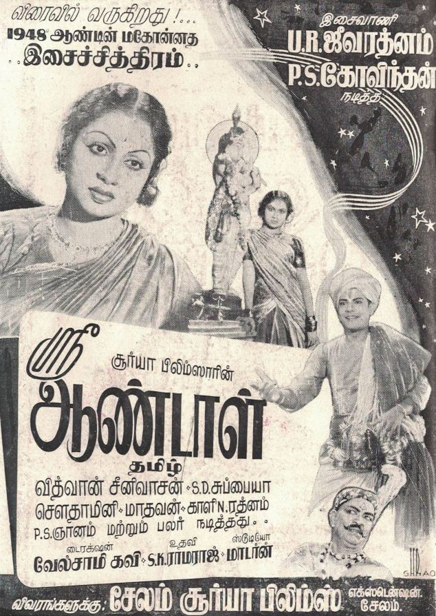 Poster for the 1948 South Indian Tamil film Sri Andal